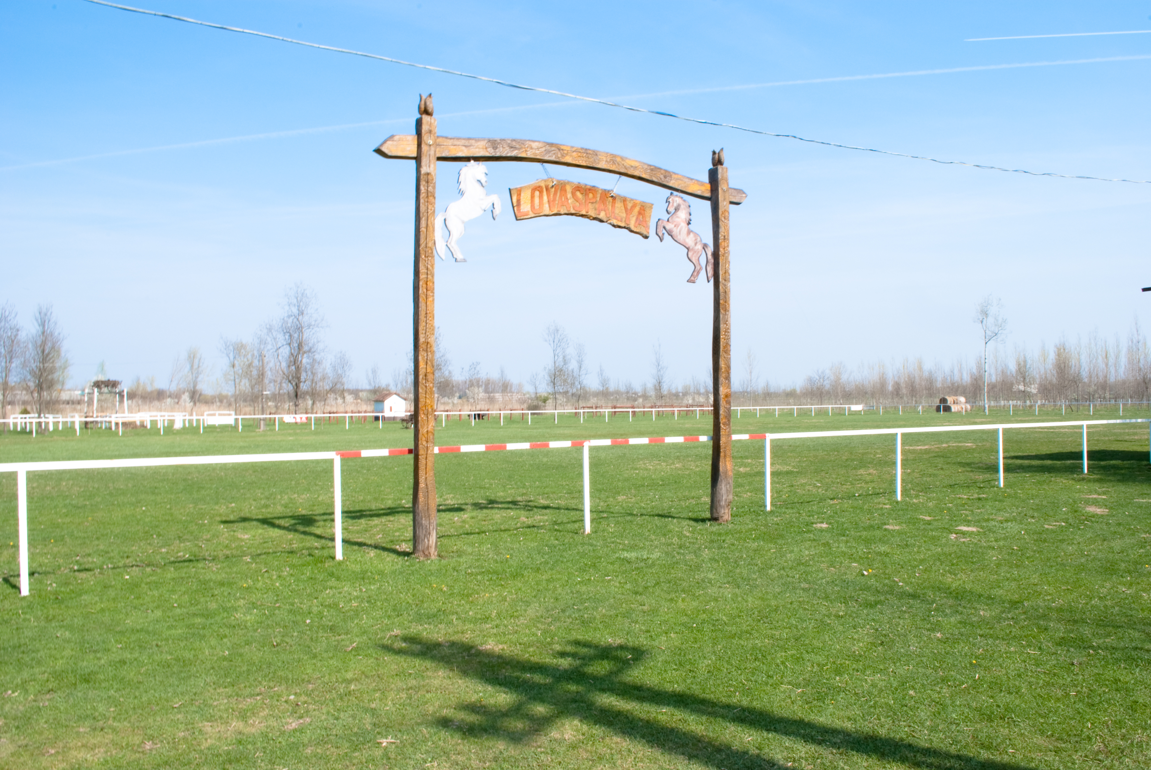 The horse arena in Mindszent